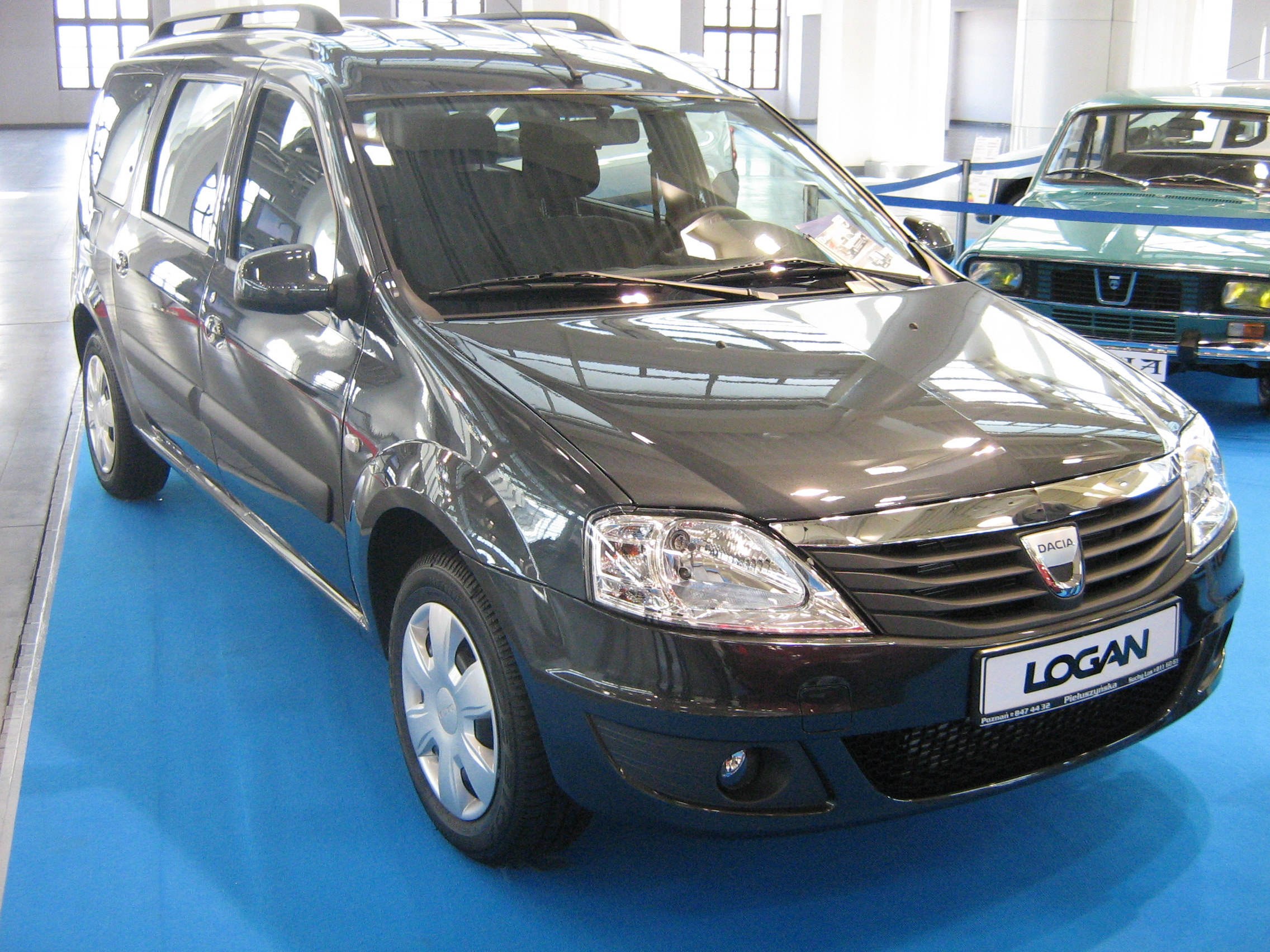 Dacia Logan MCV Facelift - PSM 2009 in Poznan.